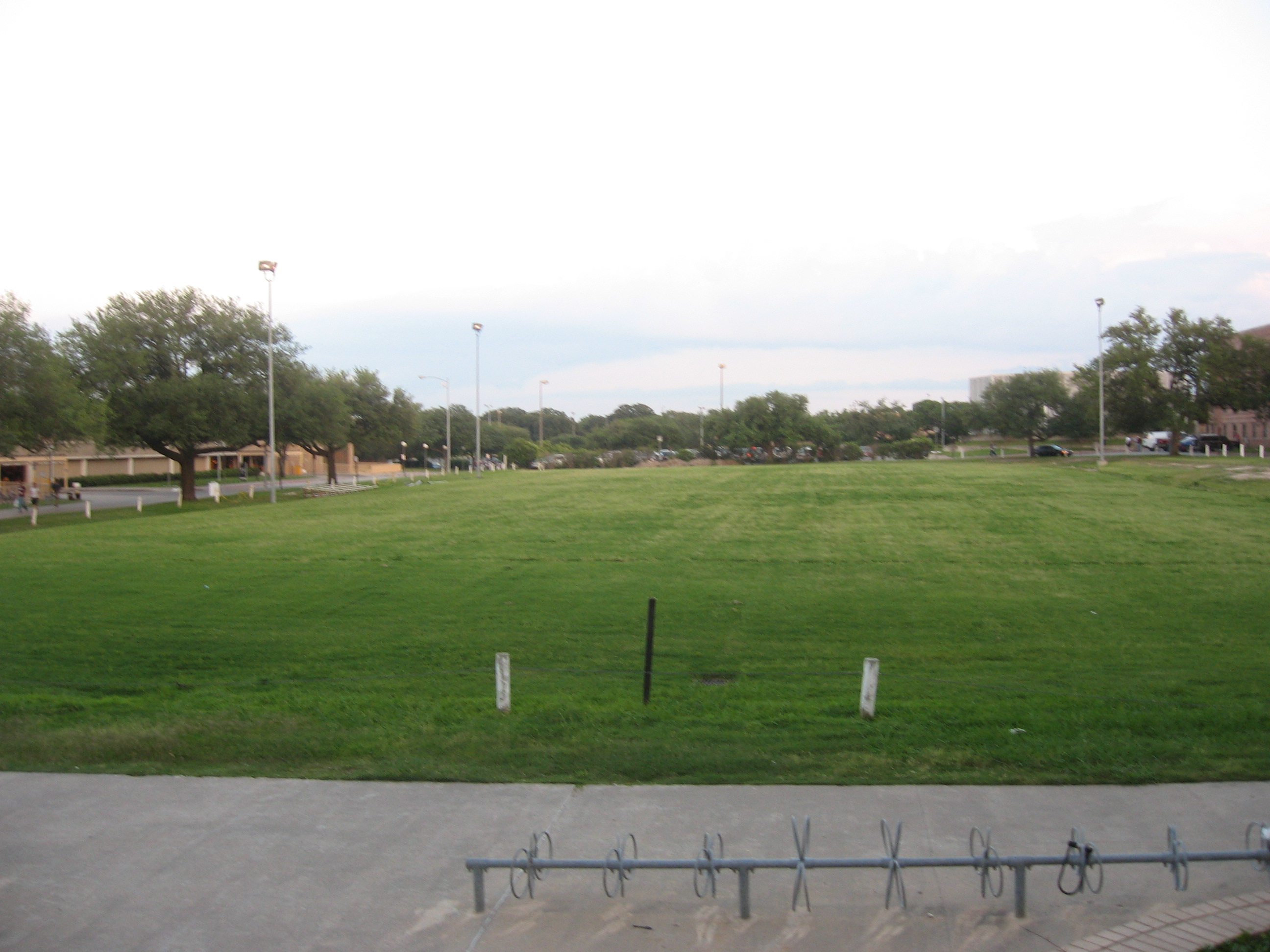 Texas A&M Band Practice Field (Joe T. Haney Drill Field)